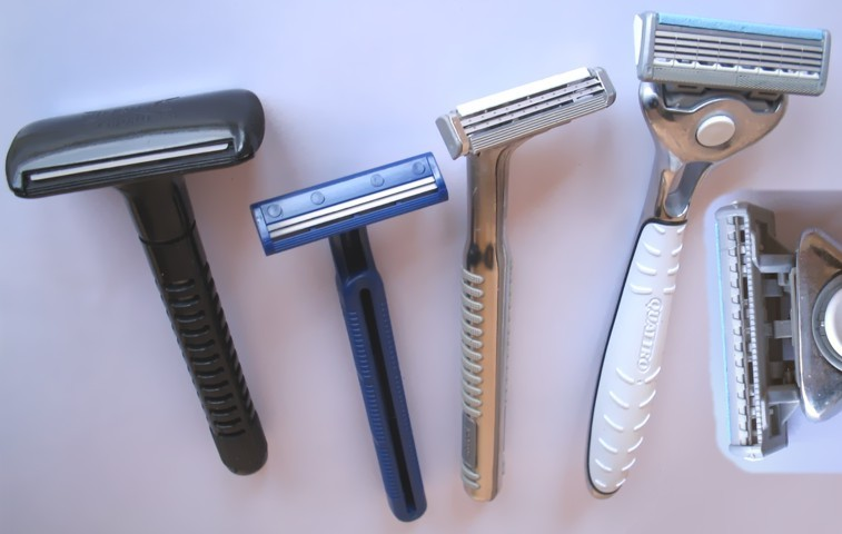 4 different razors, from left to right: double-edge razor, disposable razor, two-blade razor, four-blade razor and precision trimmer blade.